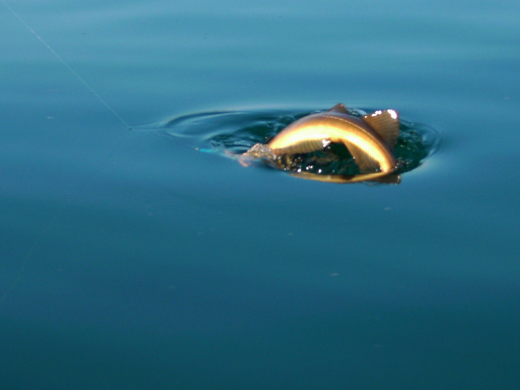 Picture taken outside the island Hitra, Norway.